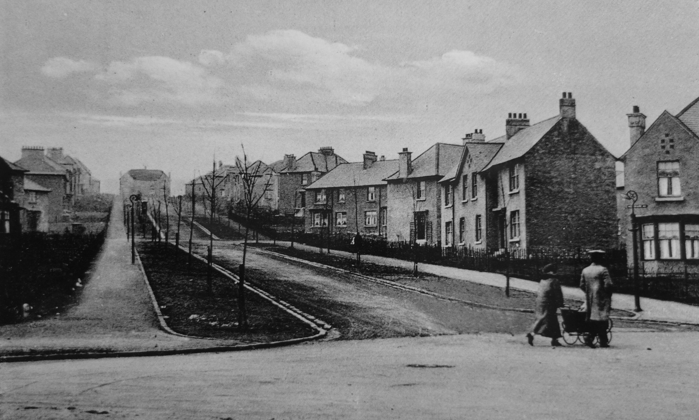 Mosspark Avenue, Glasgow from an old postcard